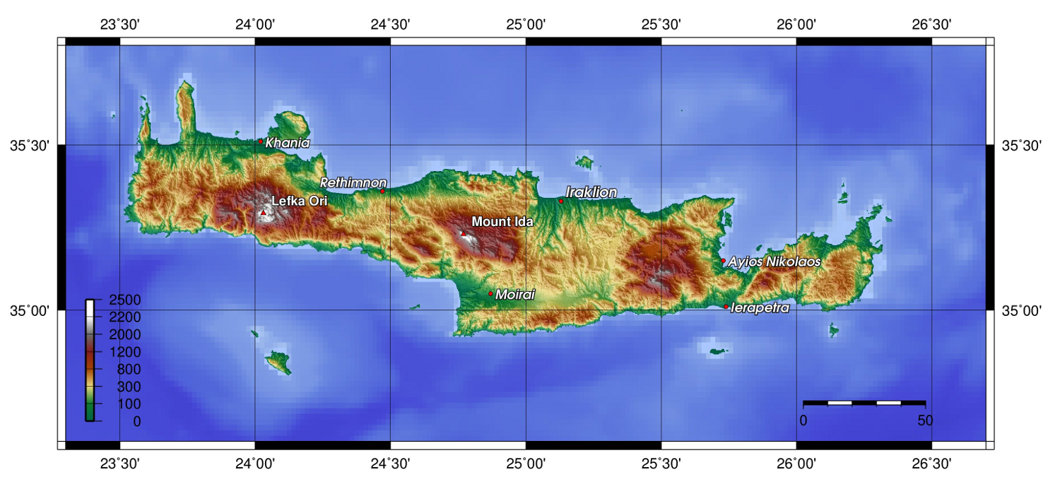 Description: Topography of Crete, created with GMT 4.1.3